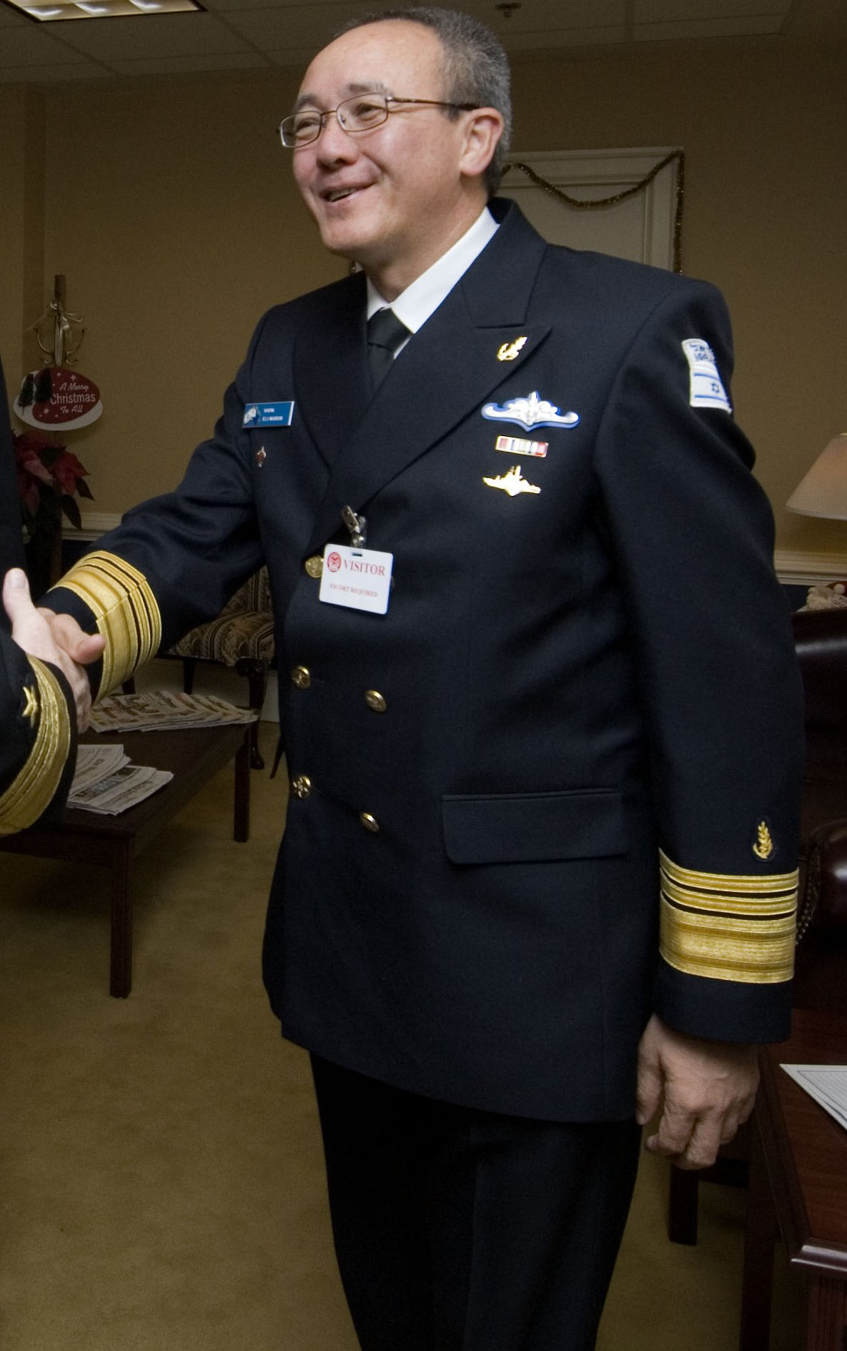 Rear-Admiral Eli Marum Commander in Chief of the Israeli Navy with ceremonial sleeve rank of Vice-Admiral